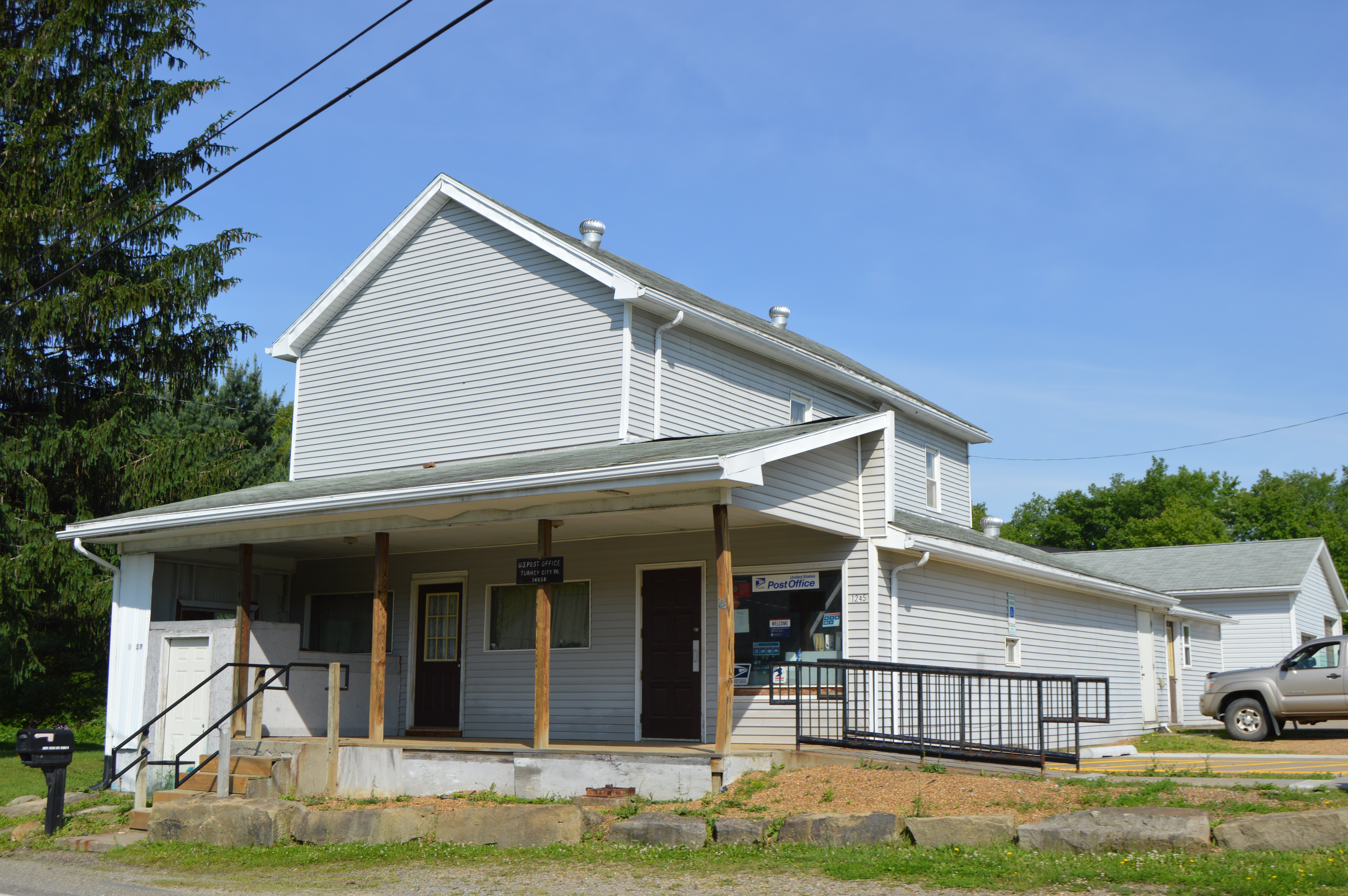 Front of the Turkey City post office, located at 1245 Pennsylvania Route 338 in Turkey City, Pennsylvania, United States.